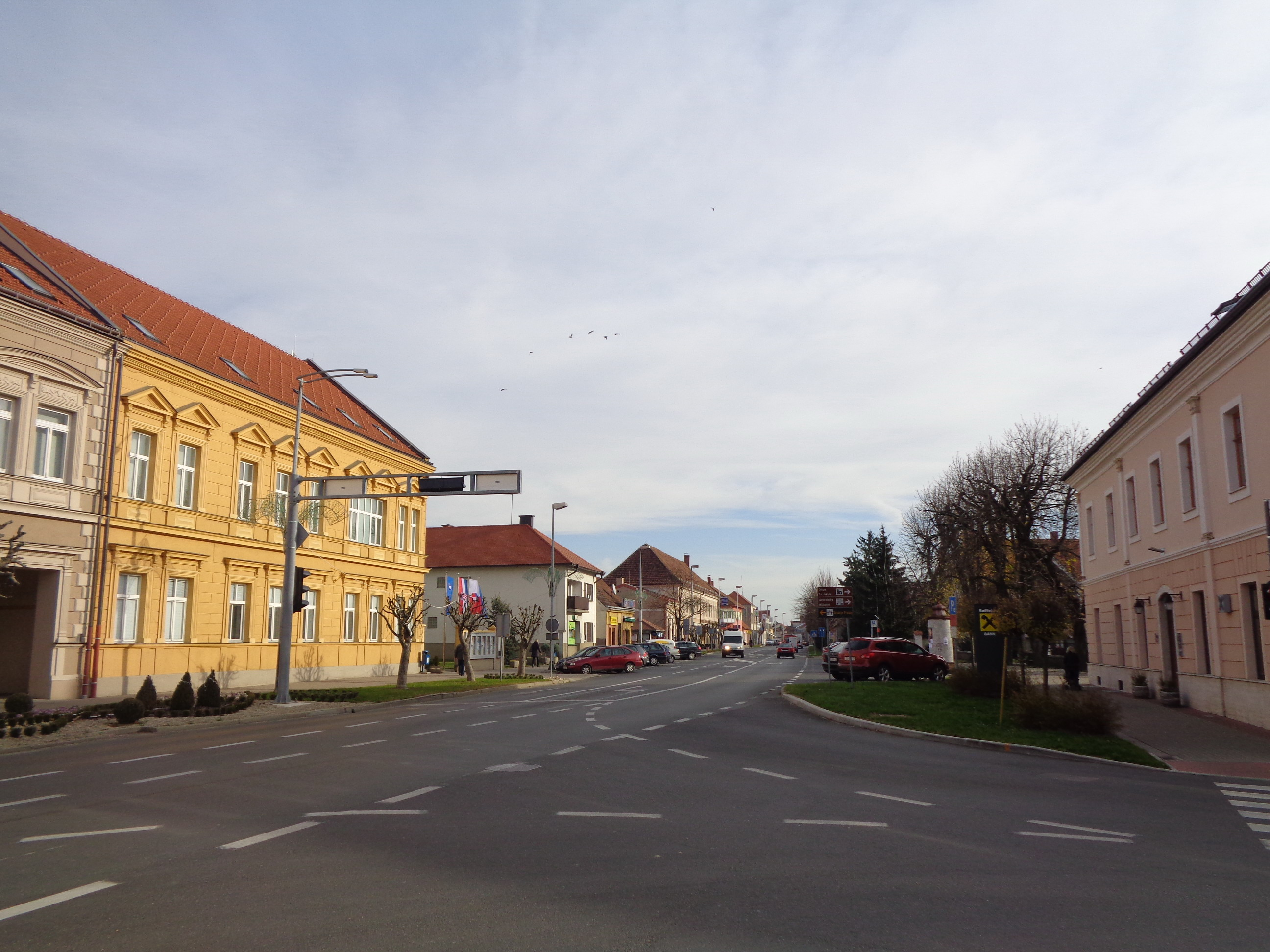 The Town of Prelog, Medjimurje County, Croatia - Main Street (Glavna ulica).2